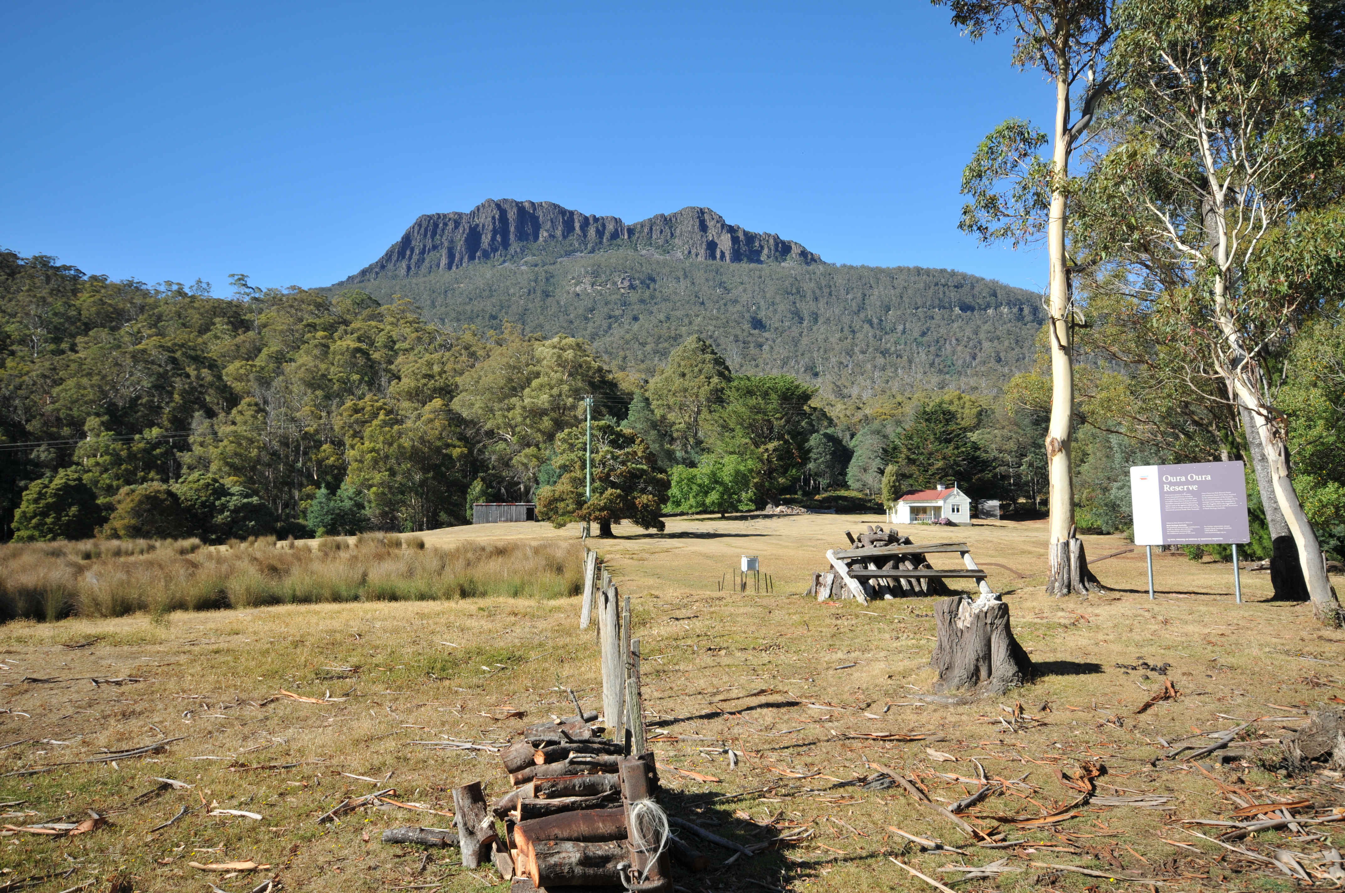 Drys Bluff, Tasmania. View from the main road